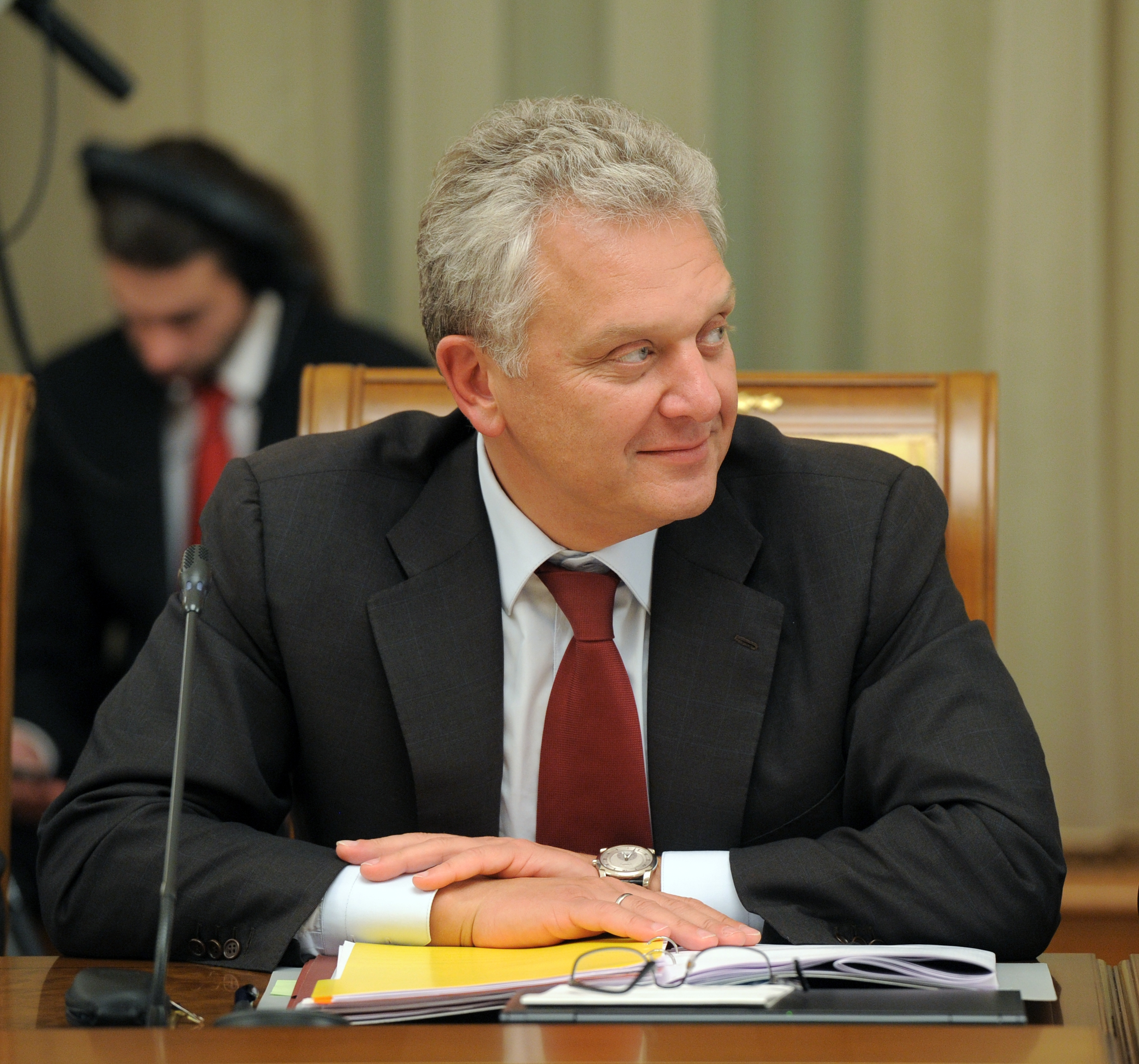 Minister of Industry and Trade Viktor Khristenko at the Government meeting